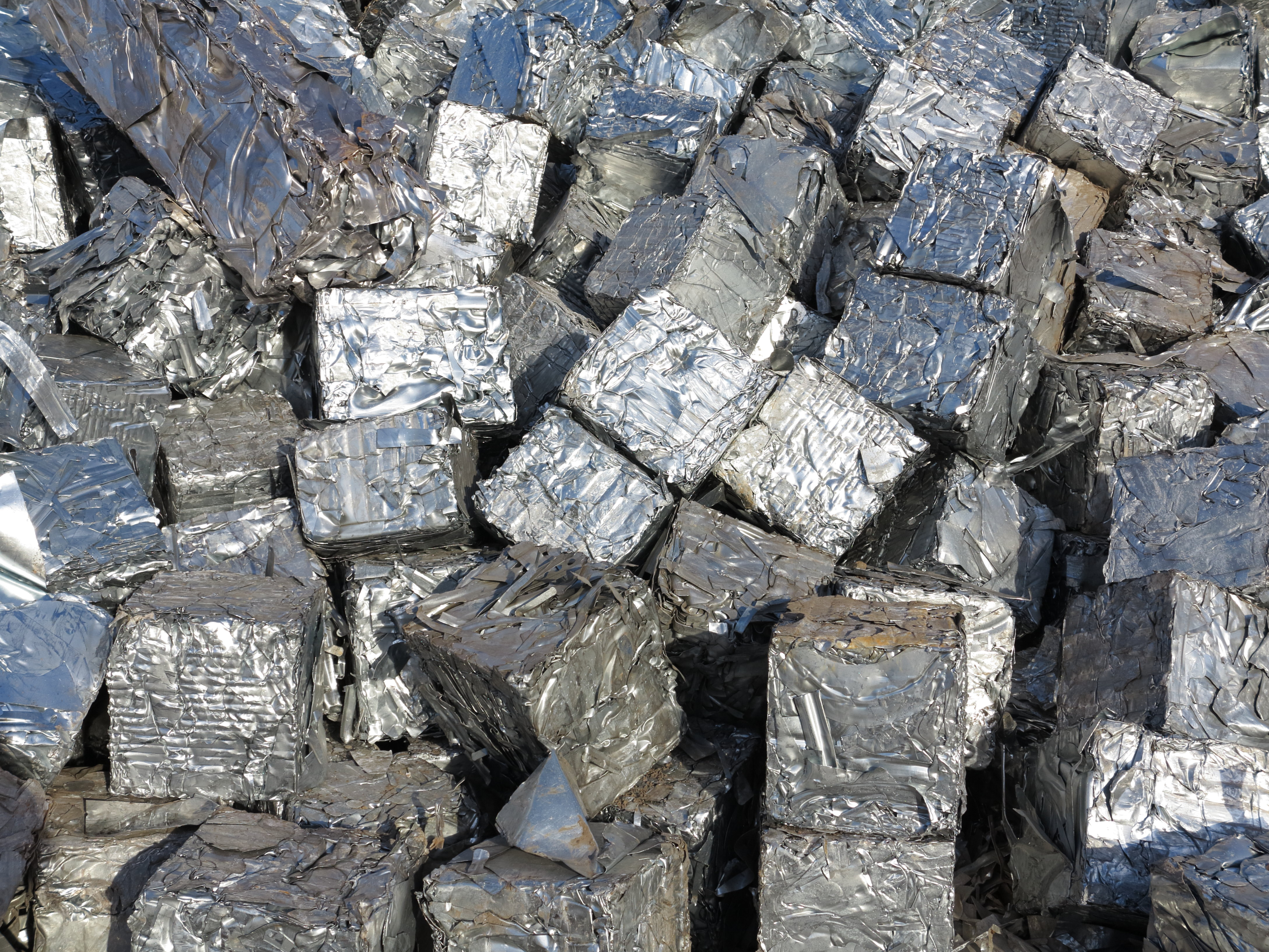 Stainless steel scrap shimmering in sunlight.